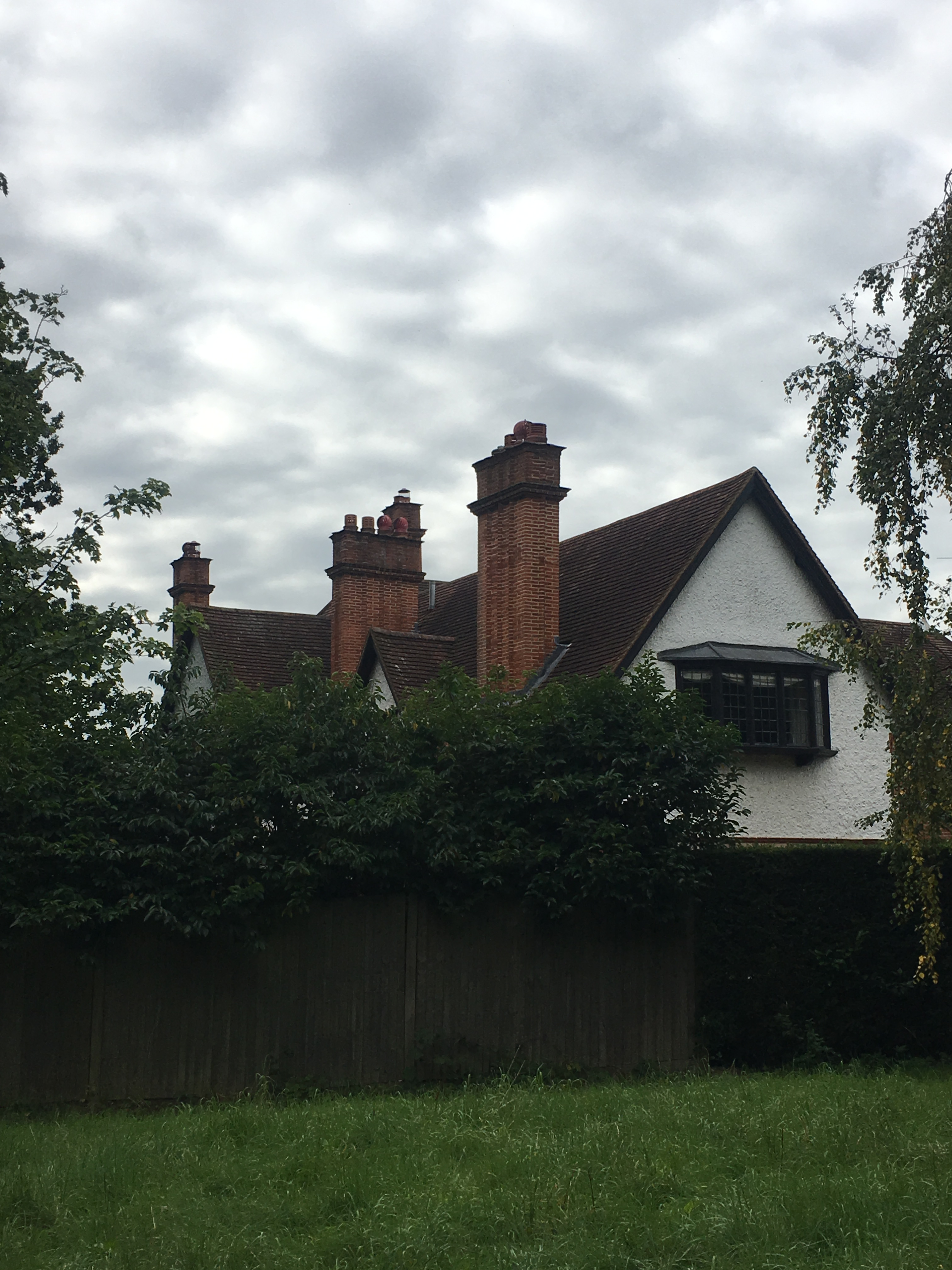 The Croft Wikidata has entry Q27085911 with data related to this item.